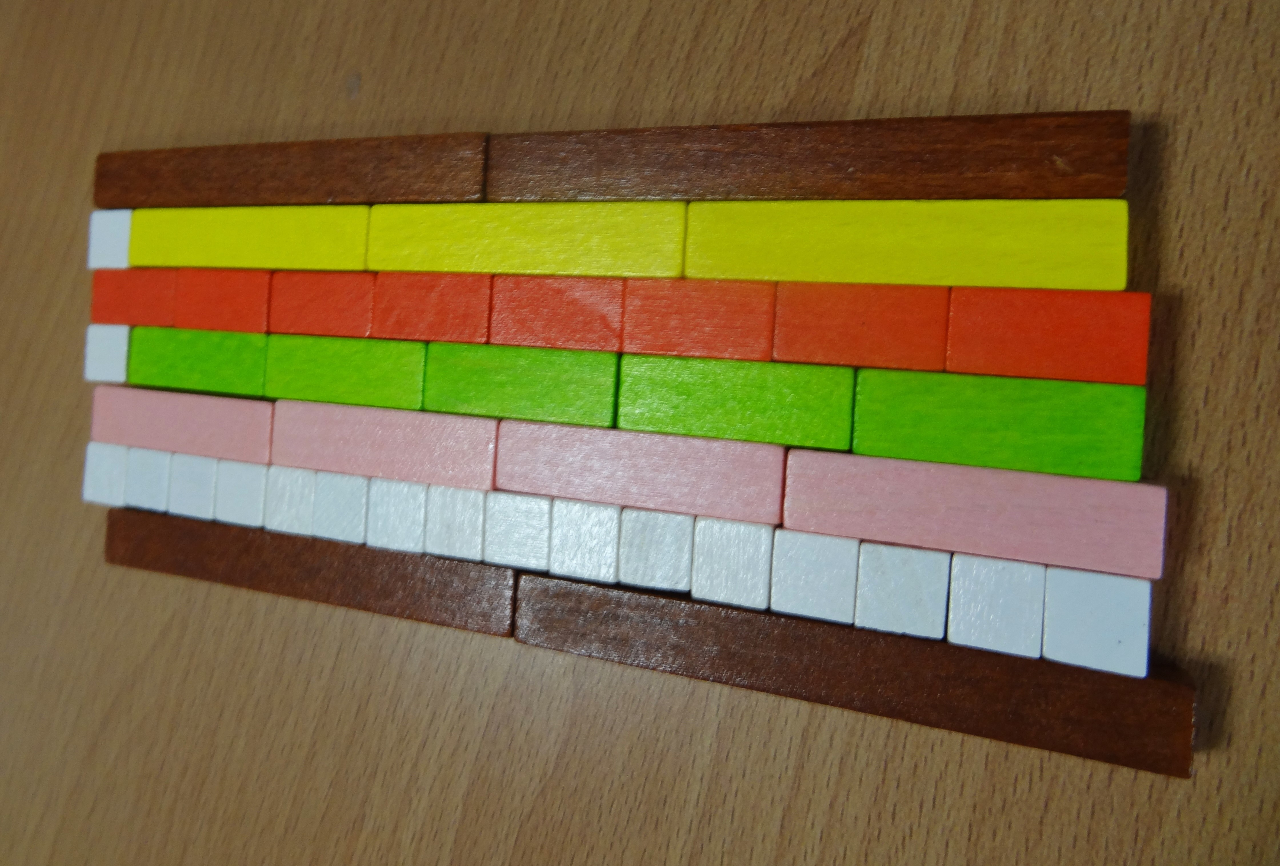 A six year-old student's experiment with Cuisenaire rods during a short lesson of free play